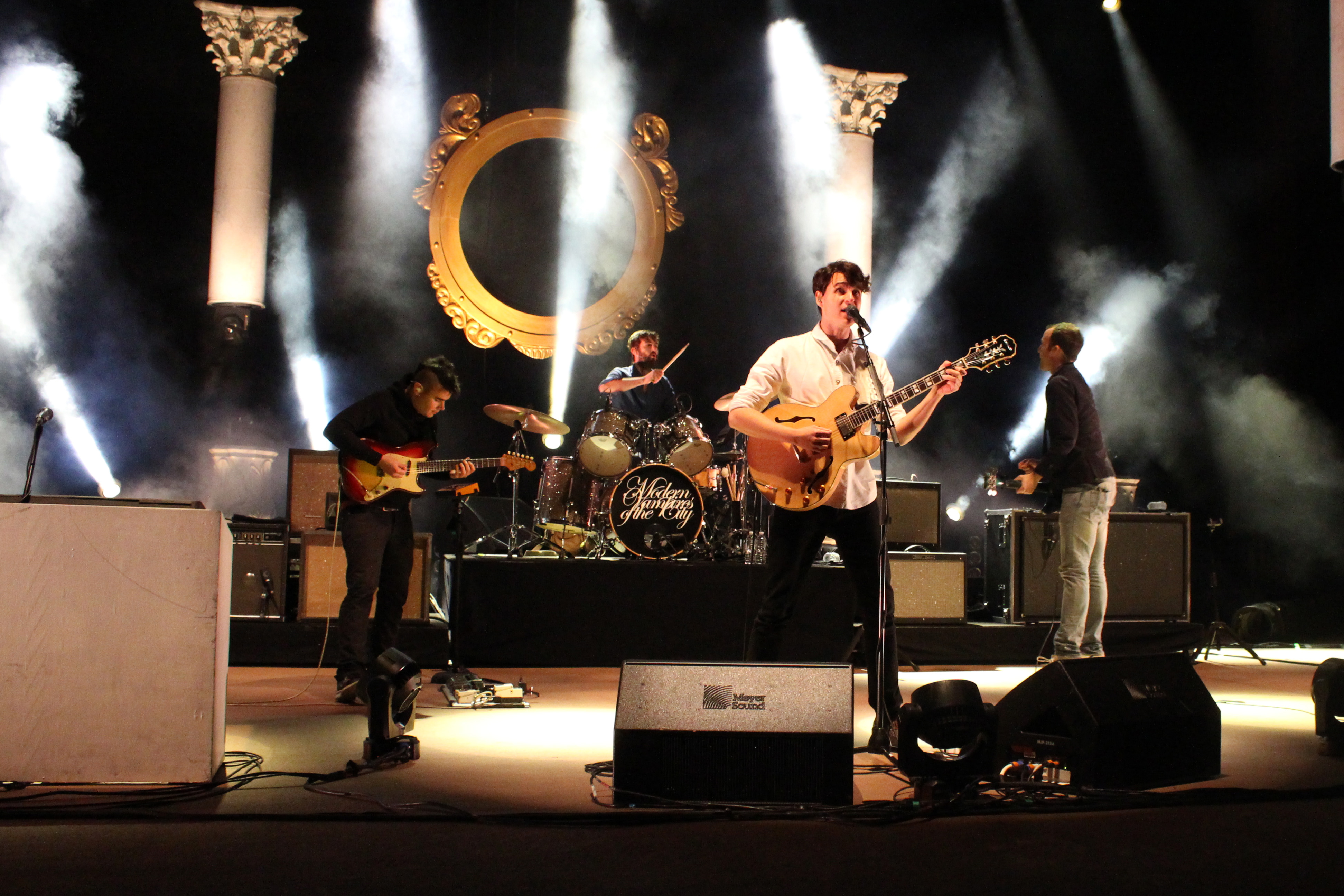 Vampire Weekend performing at Red Rocks Amphitheatre in Colorado on May 20, 2013